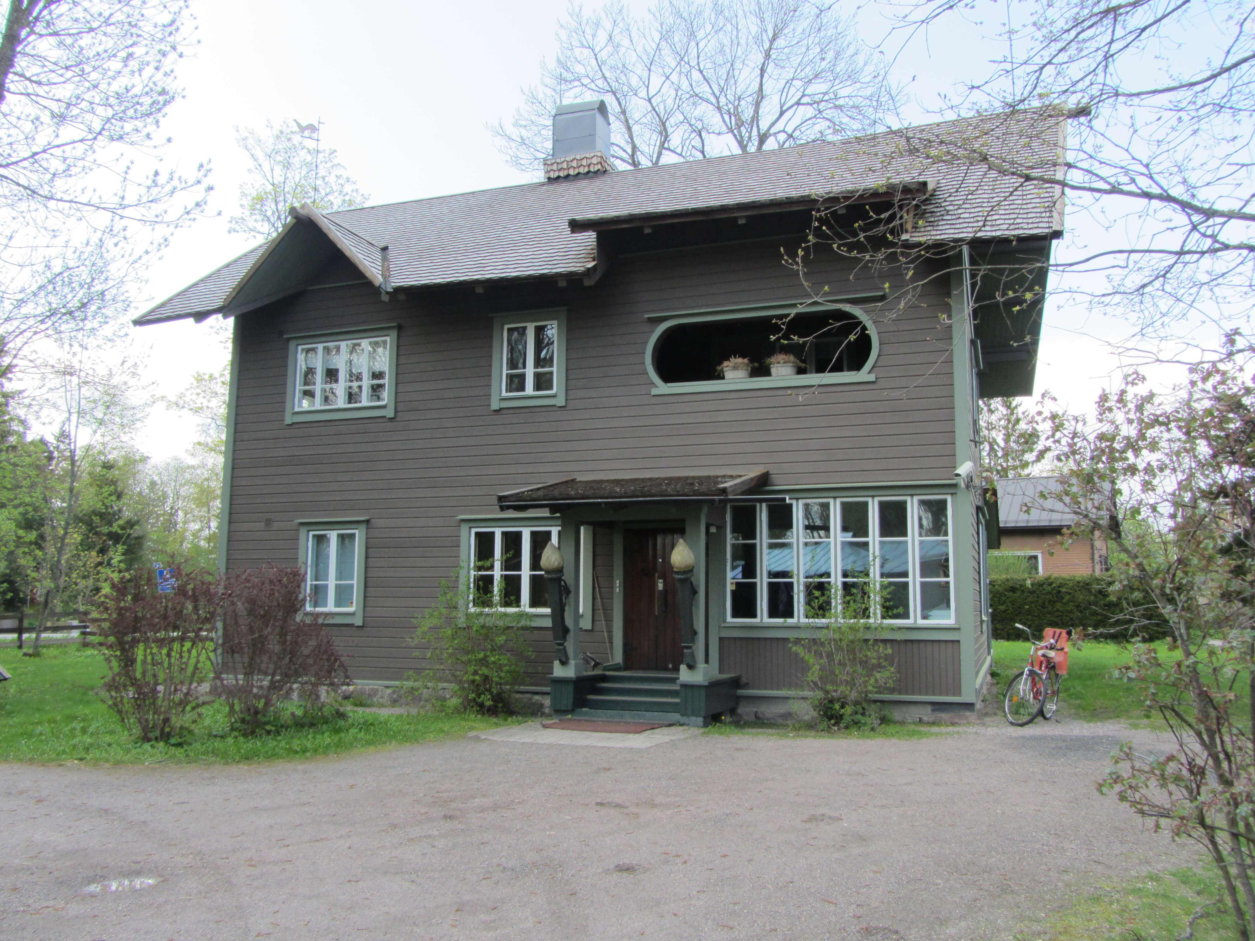 Erkkola i Tuusula was the home of the Finnish poet J. H. Erkko.